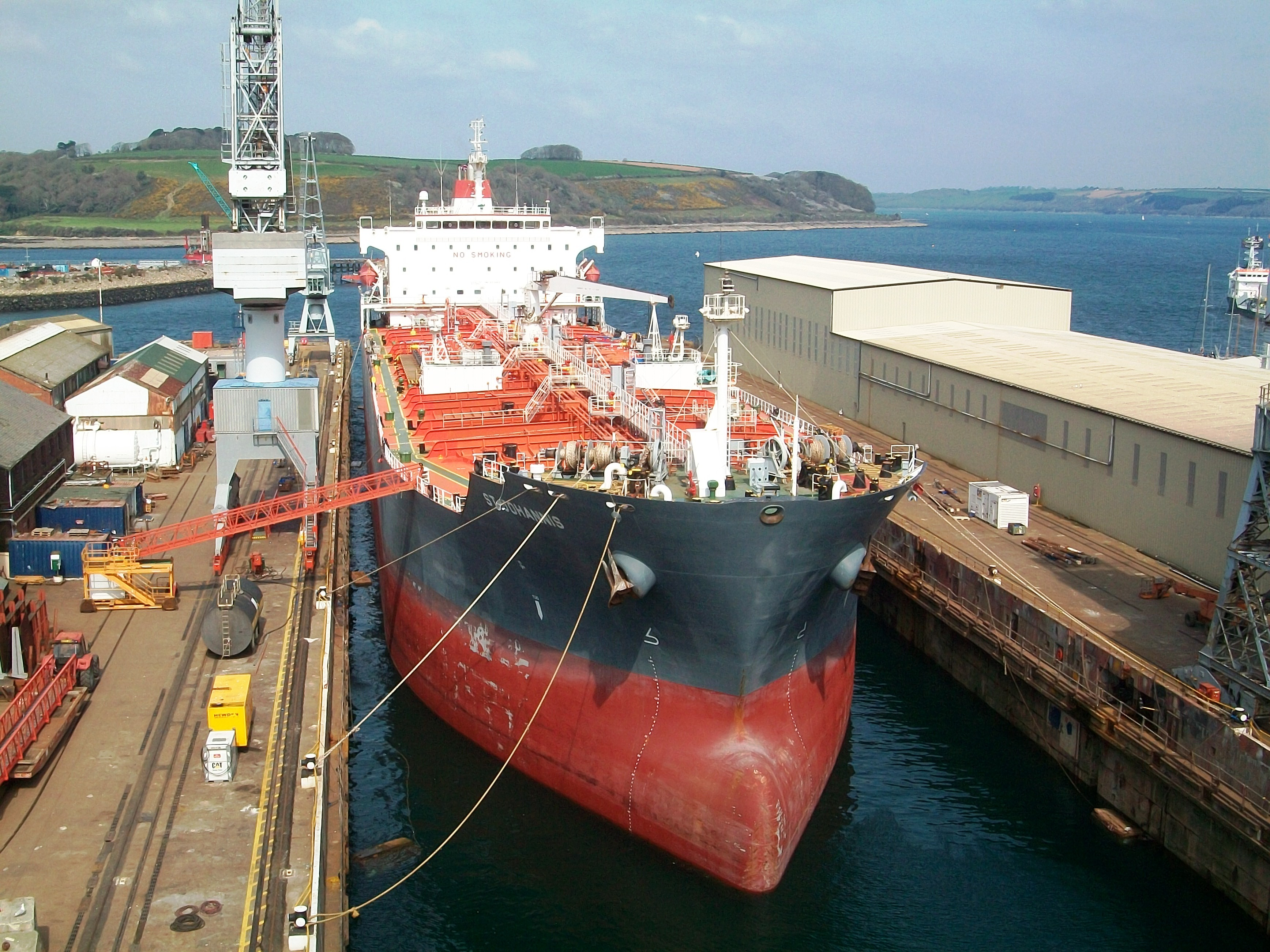 falmouth dry docks 2012